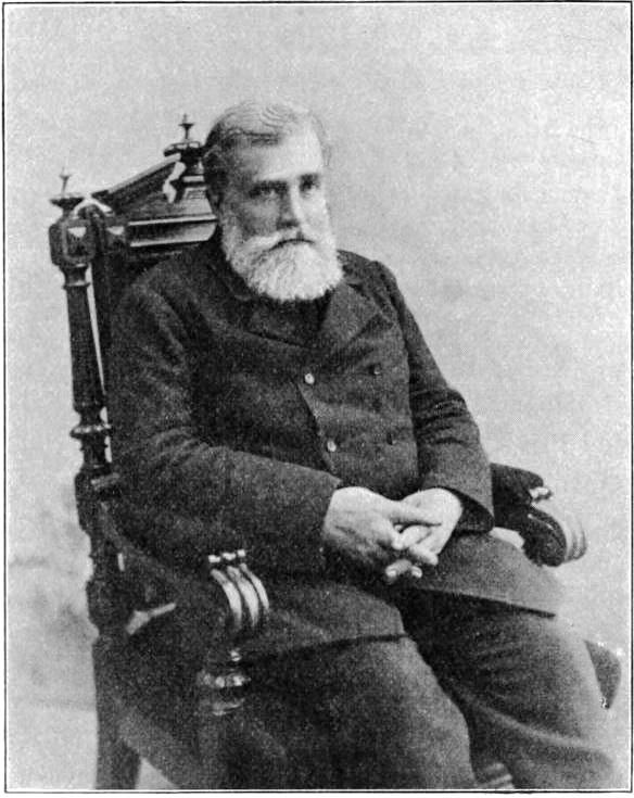 Emilian Adamiuk (1839-1906)